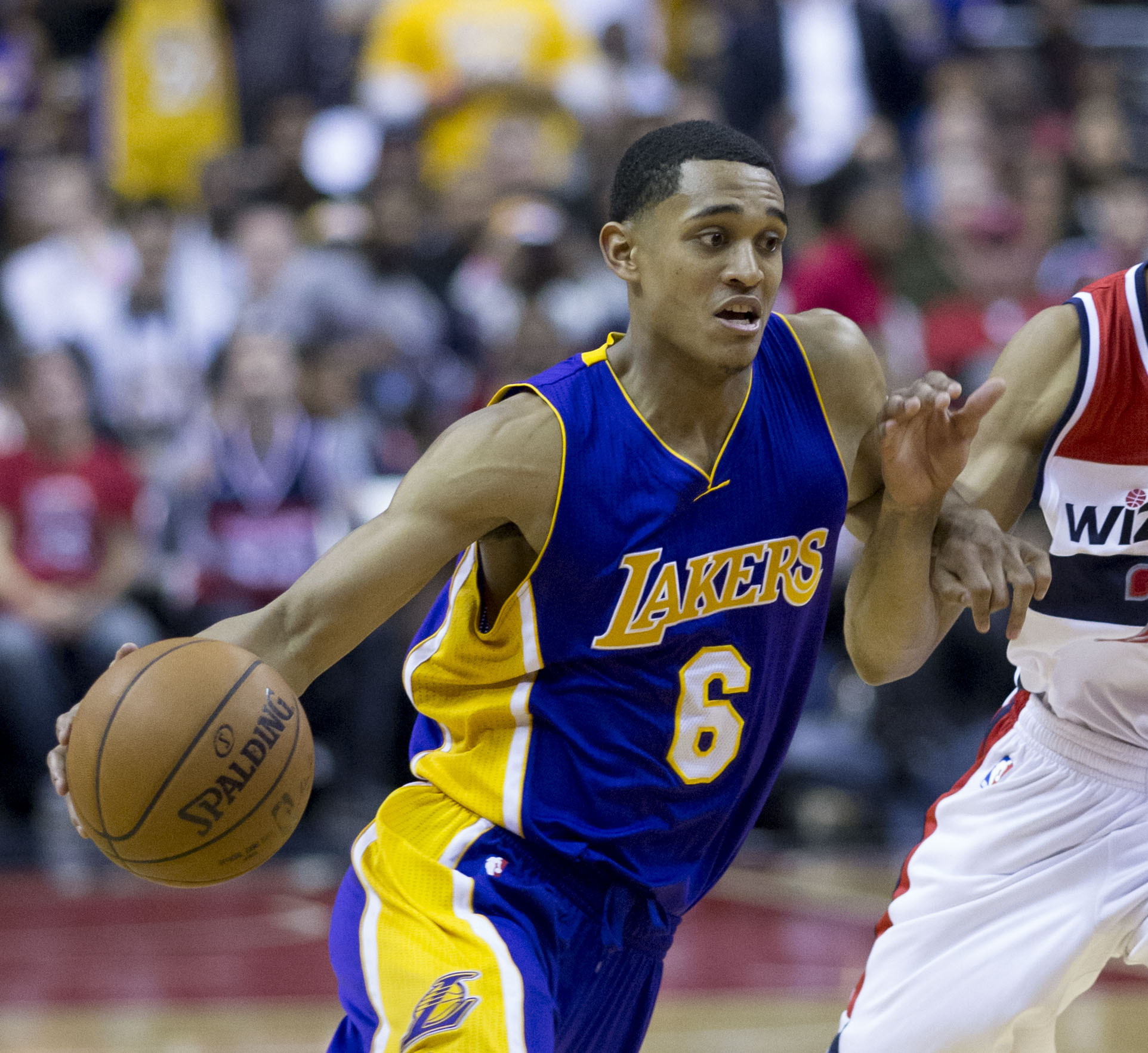 Jordan Clarkson of Los Angeles Lakers dribbles against Otto Porter of Washington Wizards